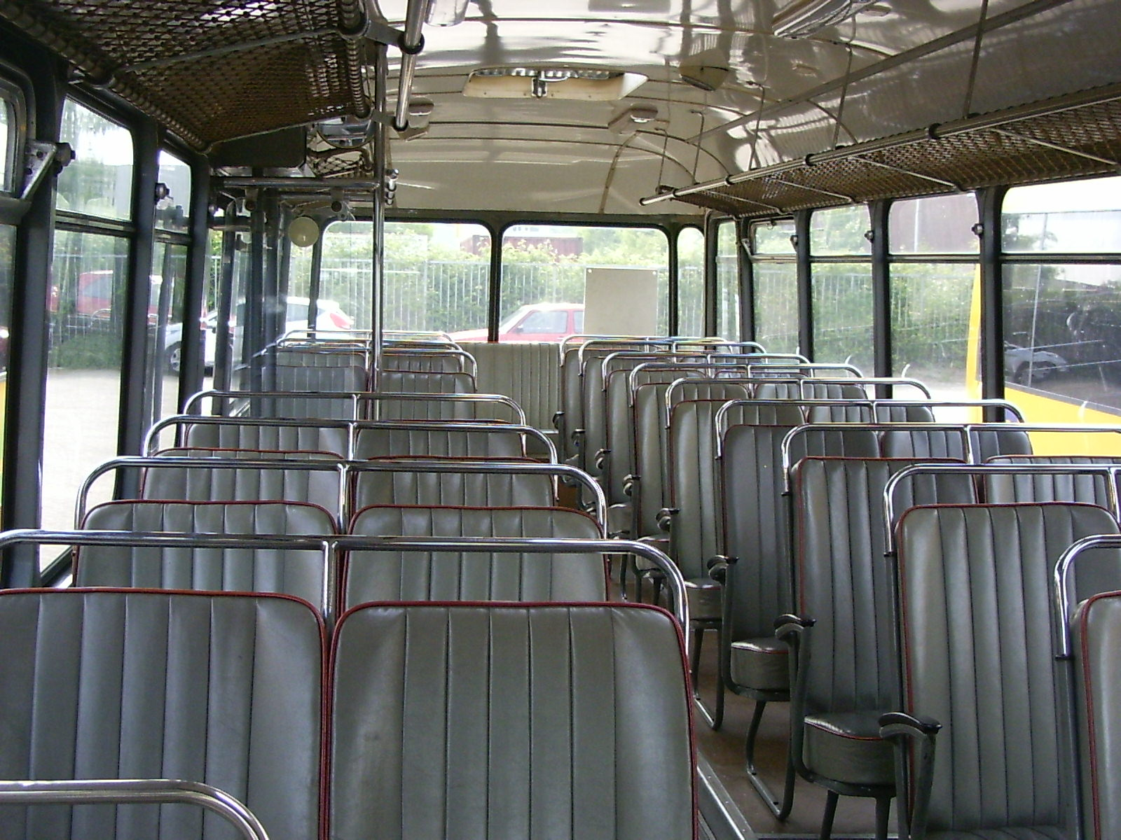 Interior of Zuidooster vintage bus 6778 dating from 1962. Den Oudsten bus (reg. VB-32-66) with DAF TB102 chassis.